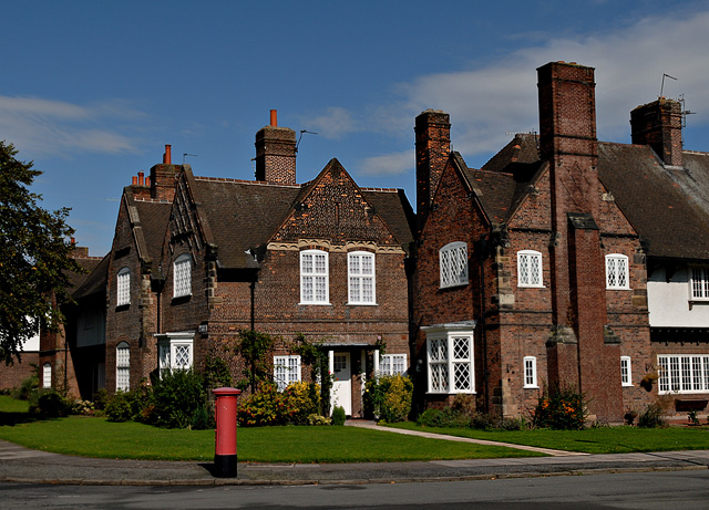 Port Sunlight